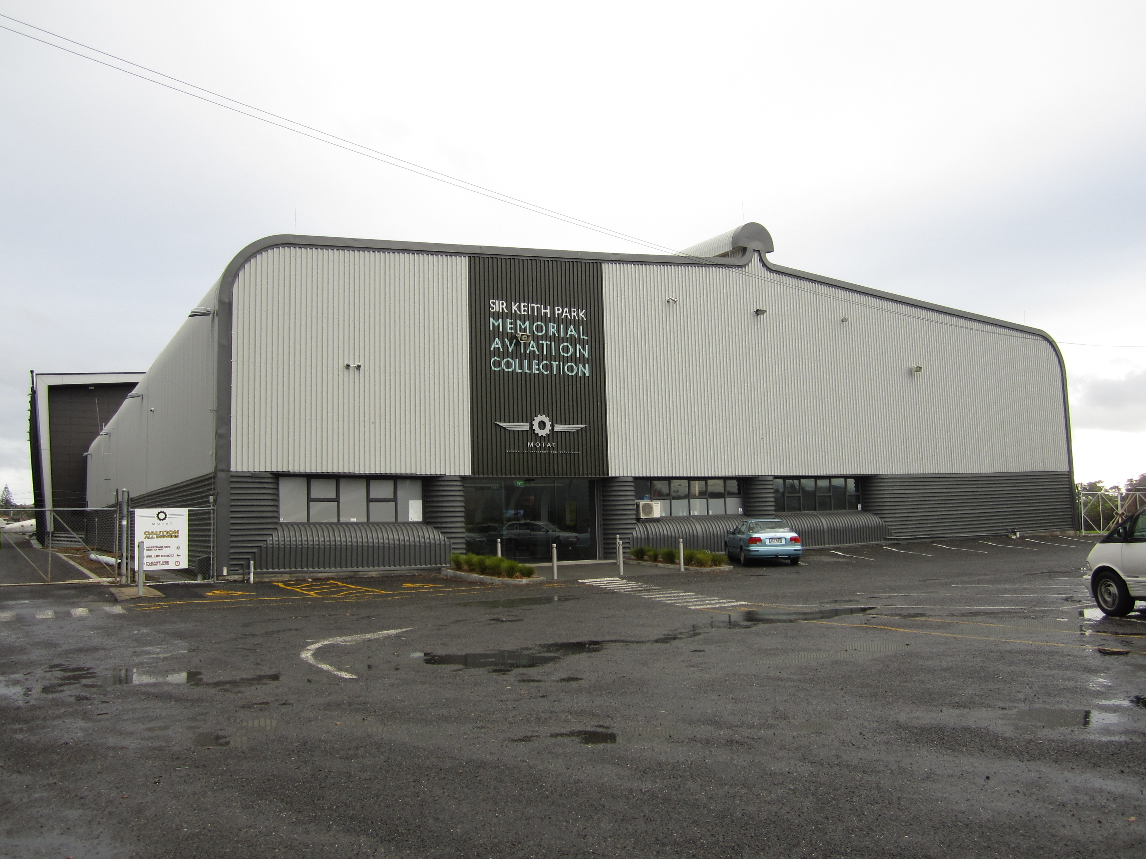 The building which houses the Sir Keith Park Memorial Aviation Collection at MOTAT in Auckland